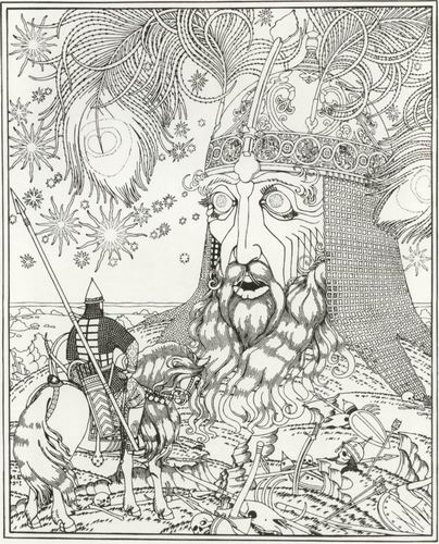 Ruslan and giant's head. Ill. to "Ruslan and Ludmila"